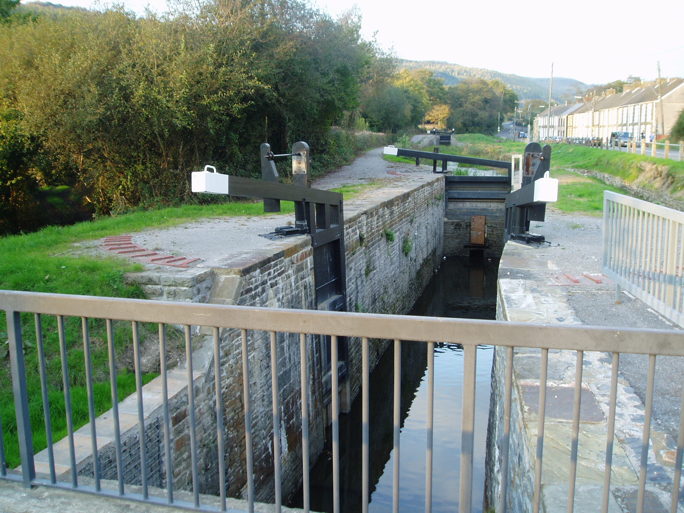 Newly rebuilt Clun Isaf lock on the Neath Canal